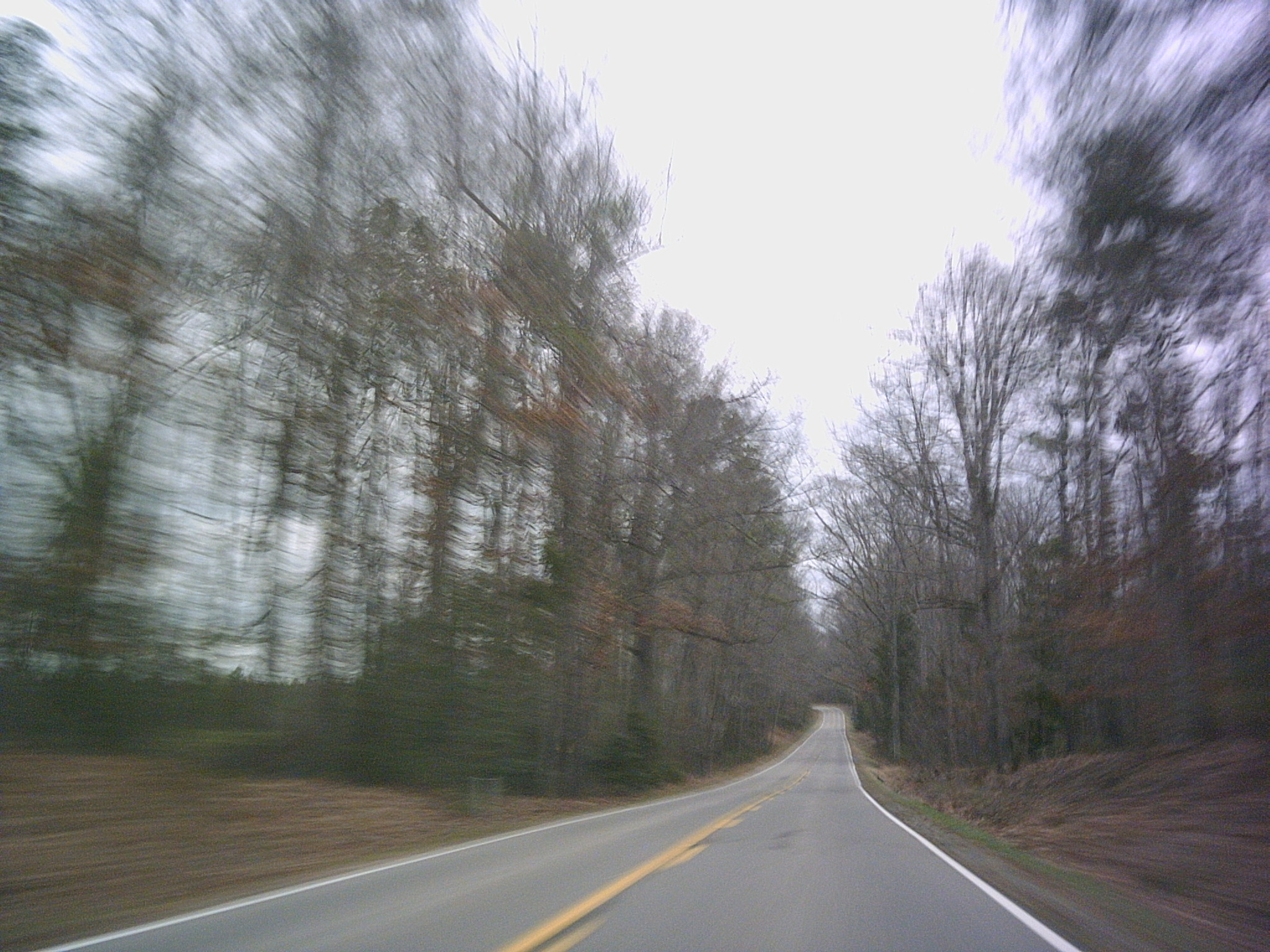 Image taken by me for Wikipedia.